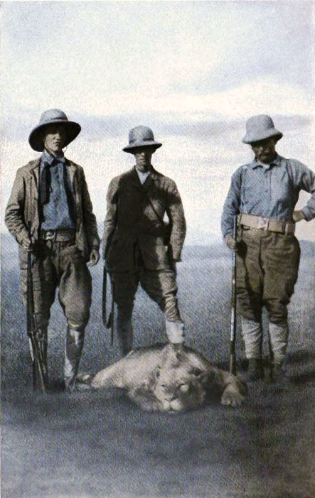 Sir Alfred Edward Pease (center) flanked by Kermit Roosevelt (left) and former President Theodore Roosevelt in the Athi Plains, 1909.